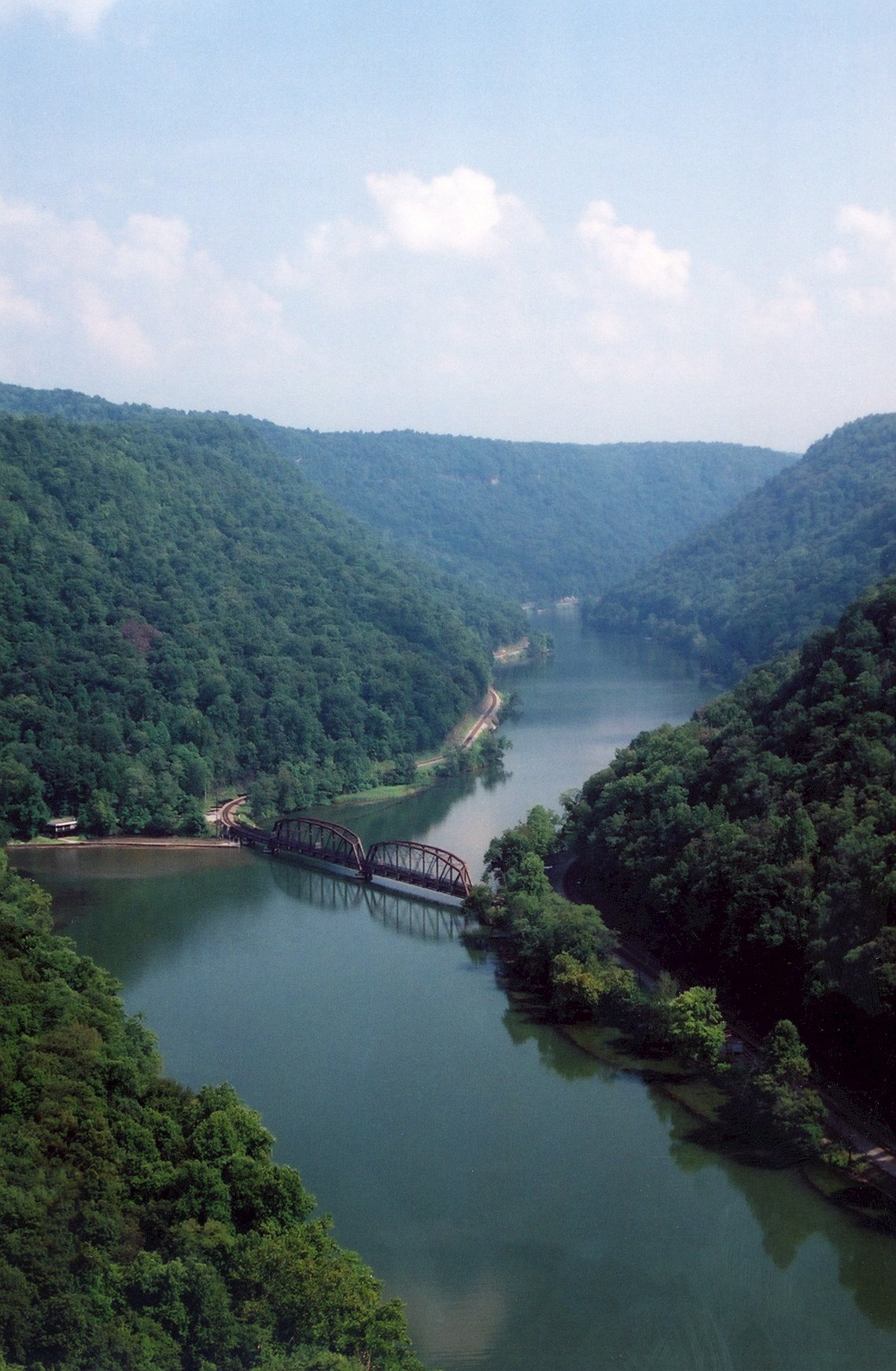 A scenic view from Hawk's Nest State Park of the New River (West Virginia) and the New River Gorge Bridge, Ansted, West Virginia.